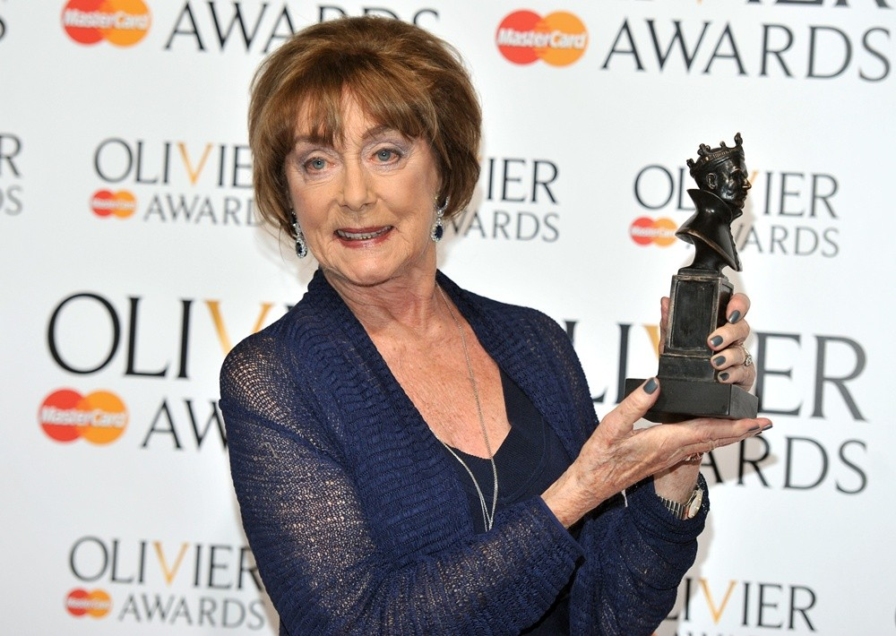 The Olivier Awards held at the Royal Opera House - Gillian Lynne. Where: London, United Kingdom. When: 28 Apr 2013